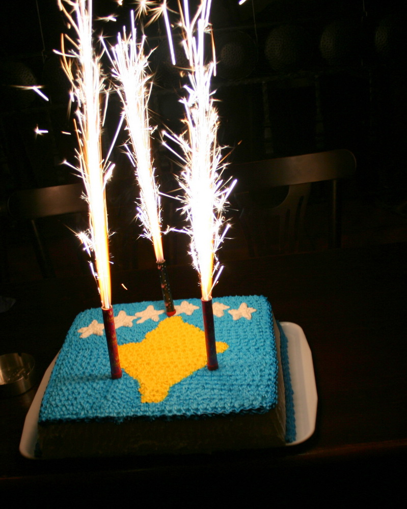 Independence Day Cake 1